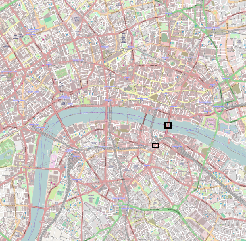 Location of sites of the London bombings of June 2017